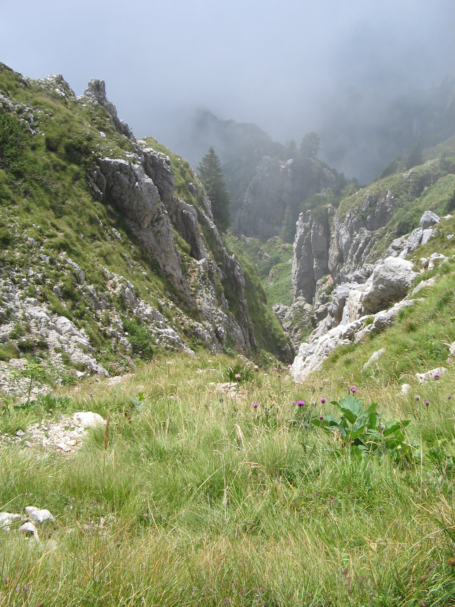 Upper tract of Vajo del Ponte, Pasubio